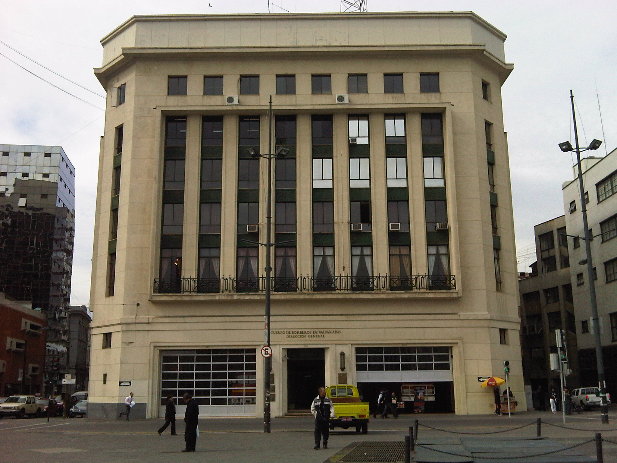 Offices + firehouse, on the plaza